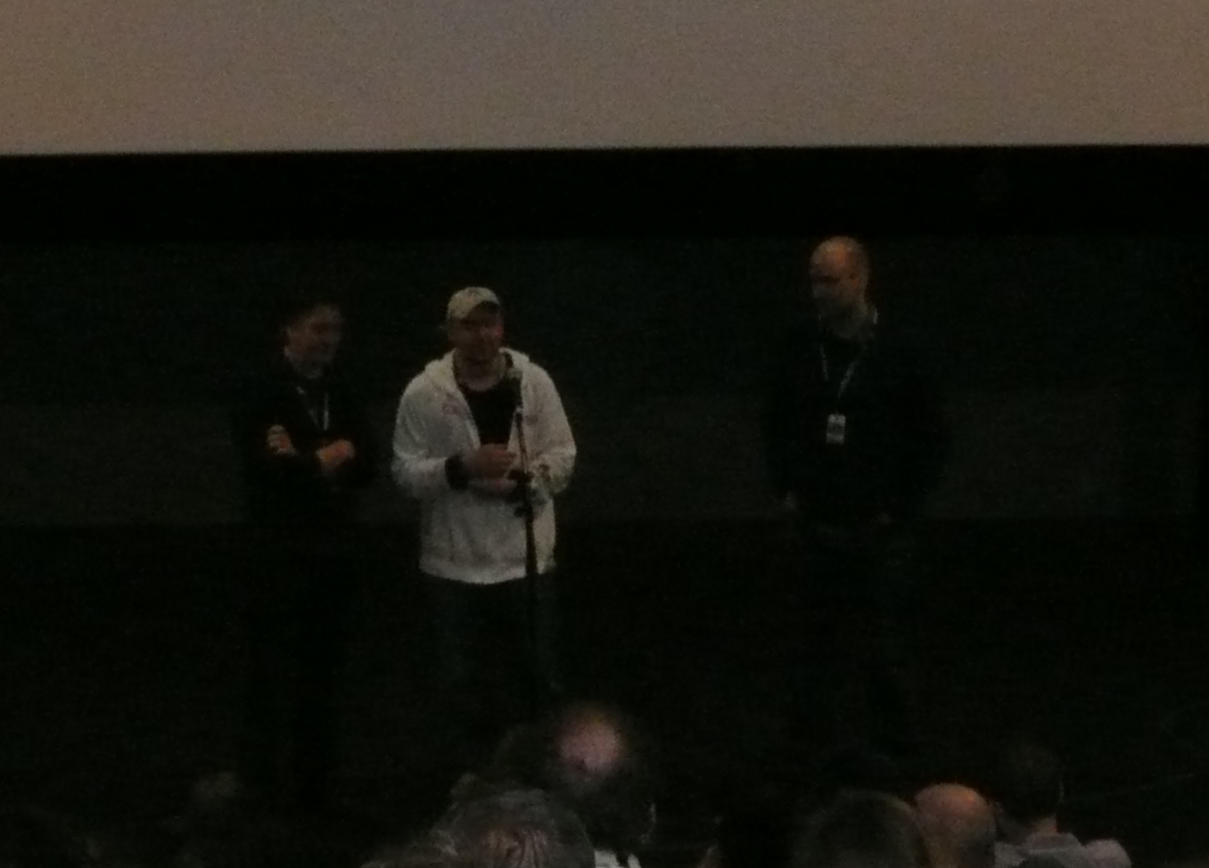 Q&A at the end of Stóra planið (The Higher Force) Icelandic movie with director Olaf de Fleur Johannesson (middel) and acteur Stefan C. Schaefer (right, plays Wolfi).